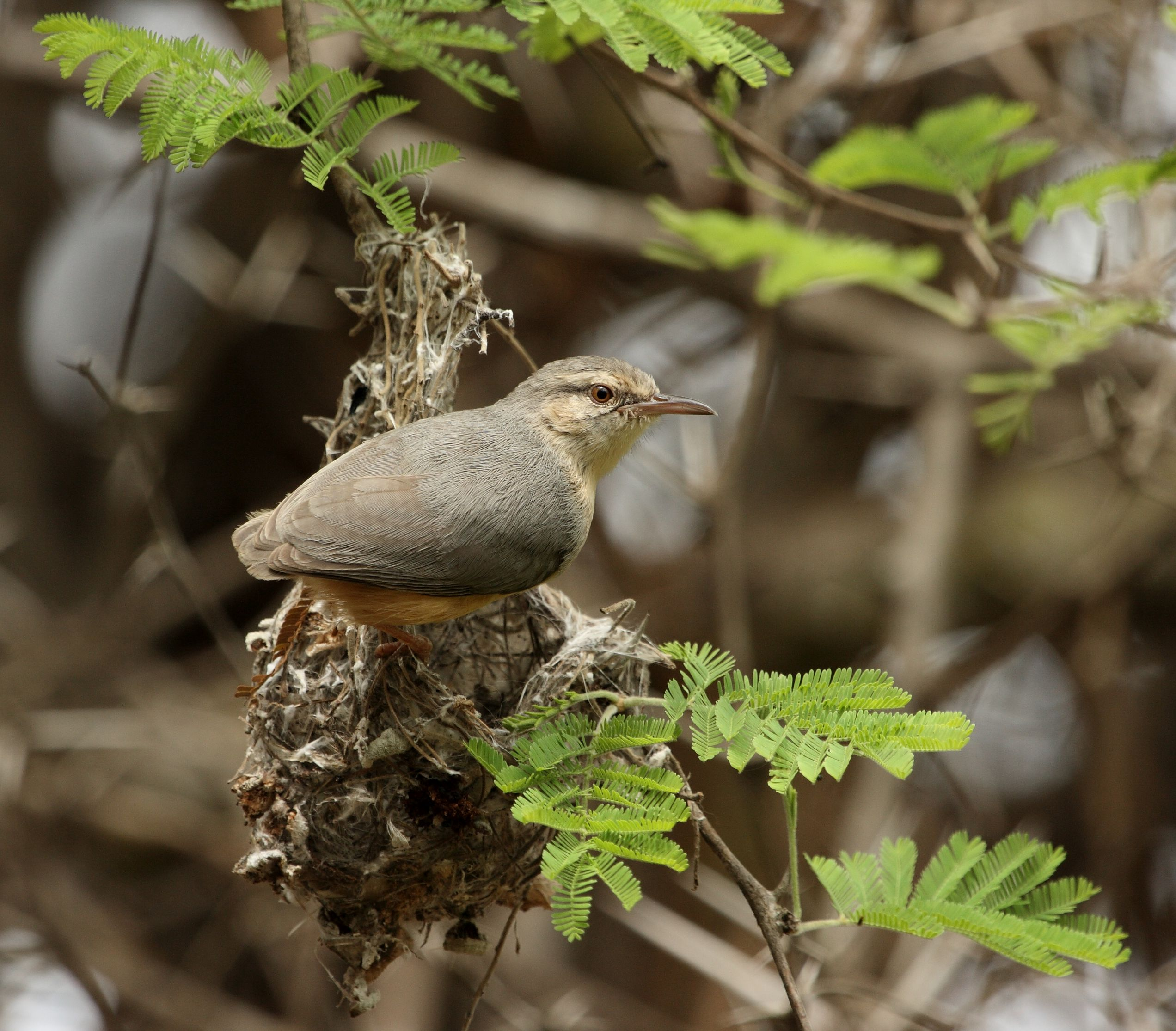 Long-billed crombec building a nest at Ngwenya Resort, Mpumalanga, South Africa.